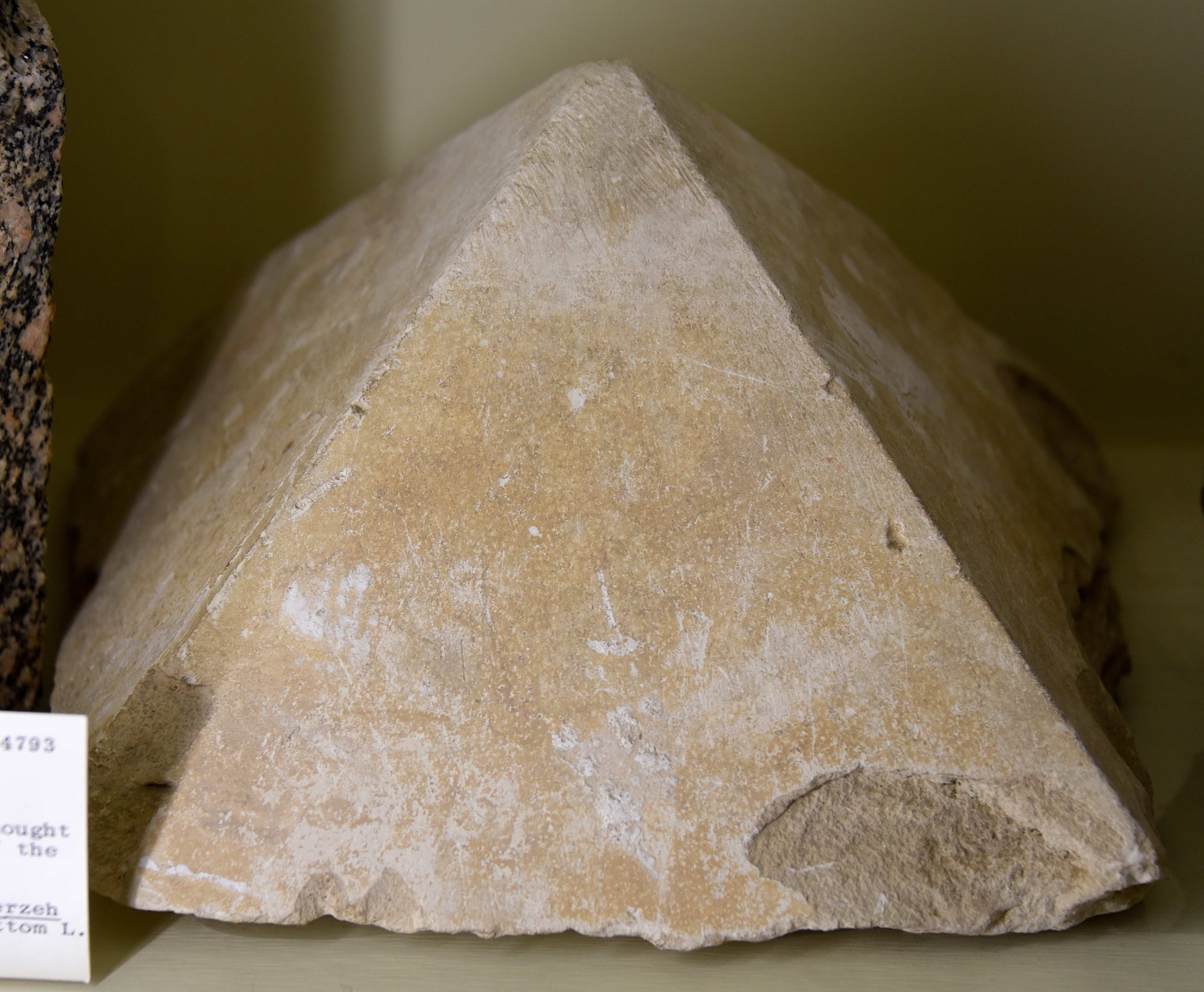 Limestone pyramid. Mr. F. Petrie thought that this represented a model for Hawara pyramid. 12th Dynasty. From Hawara, Egypt. The Petrie Museum of Egyptian Archaeology, London. With thanks to the Petrie Museum of Egyptian Archaeology, UCL.